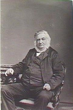 This image shows a photograph of Thomas Playford I, taken in 1865. Under Australian law, all photographs taken in Australia before 1955 are in the public domain. This image is in the public domain under both Australian copyright law and US copyright law. Image Accessed from